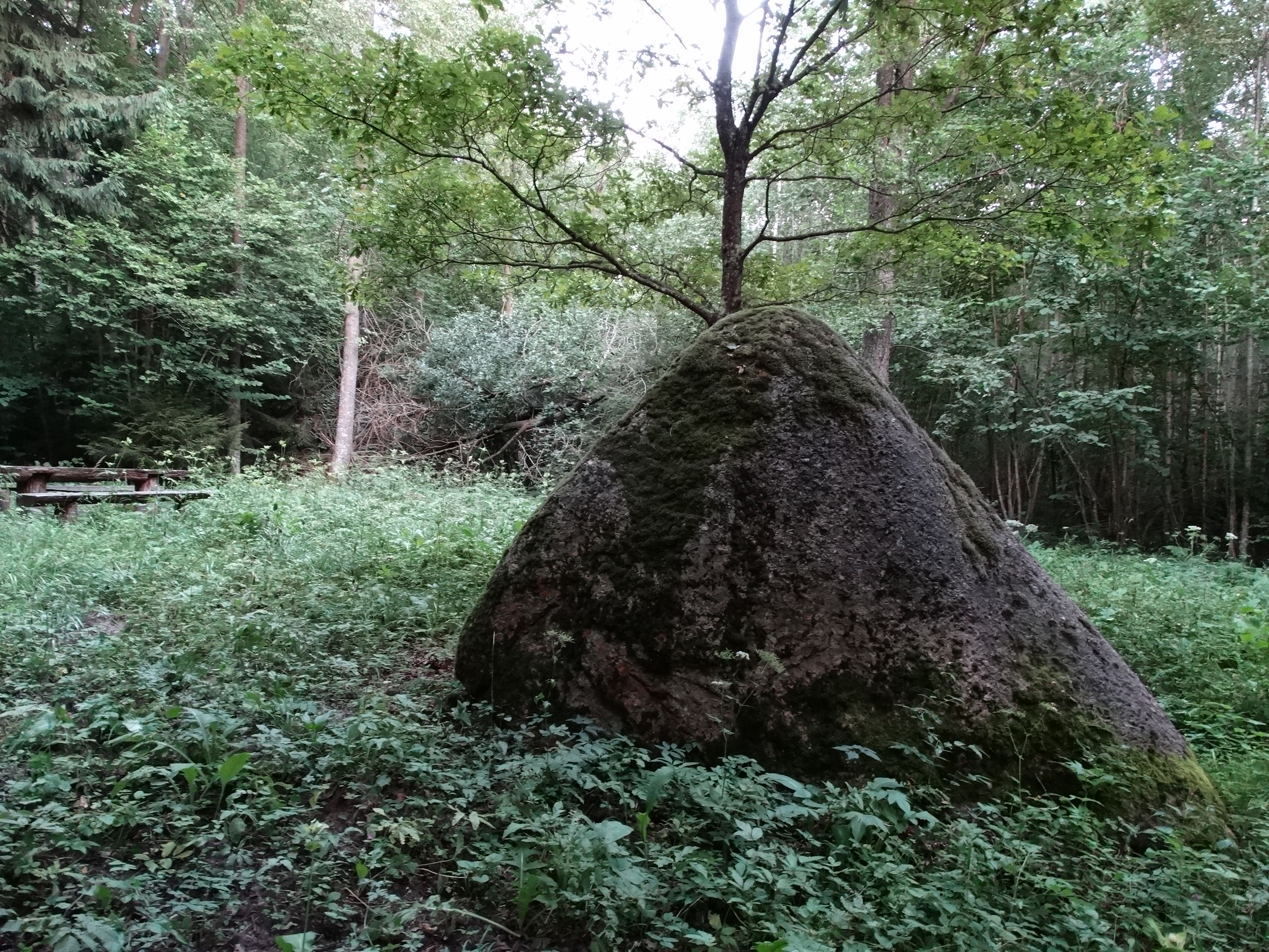 Barbora Stone, Anykščiai, Lithuania